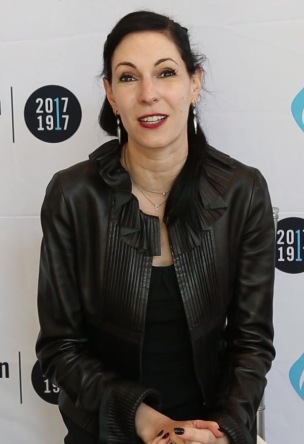 Jill Kargman at UJA-Federation of New York event. Still frame extracted from video at approximately 0:15.